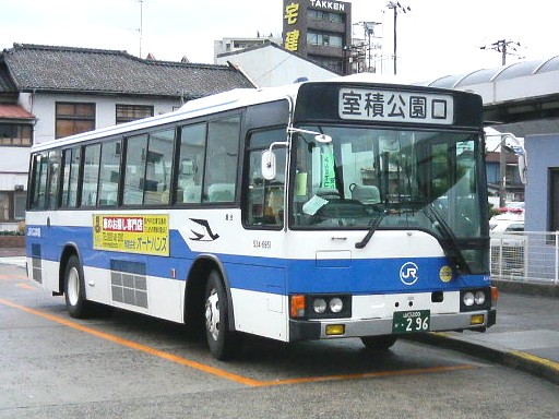 Company:Chugoku JR bus Use:transit bus Car license:山口200 か・296 Code:534-6951 Belongs to:Suo Depot(Hikari Line) Chassis manufacturer:Mitsubishi Motors Coachbuilder:Mitsubishi FUSO Bus Manufacturing Location:at Hikari Station, in Hikari City, Yamaguchi, Japan